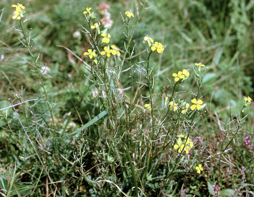 Erysimum crepidifolium (Franken, Germany)